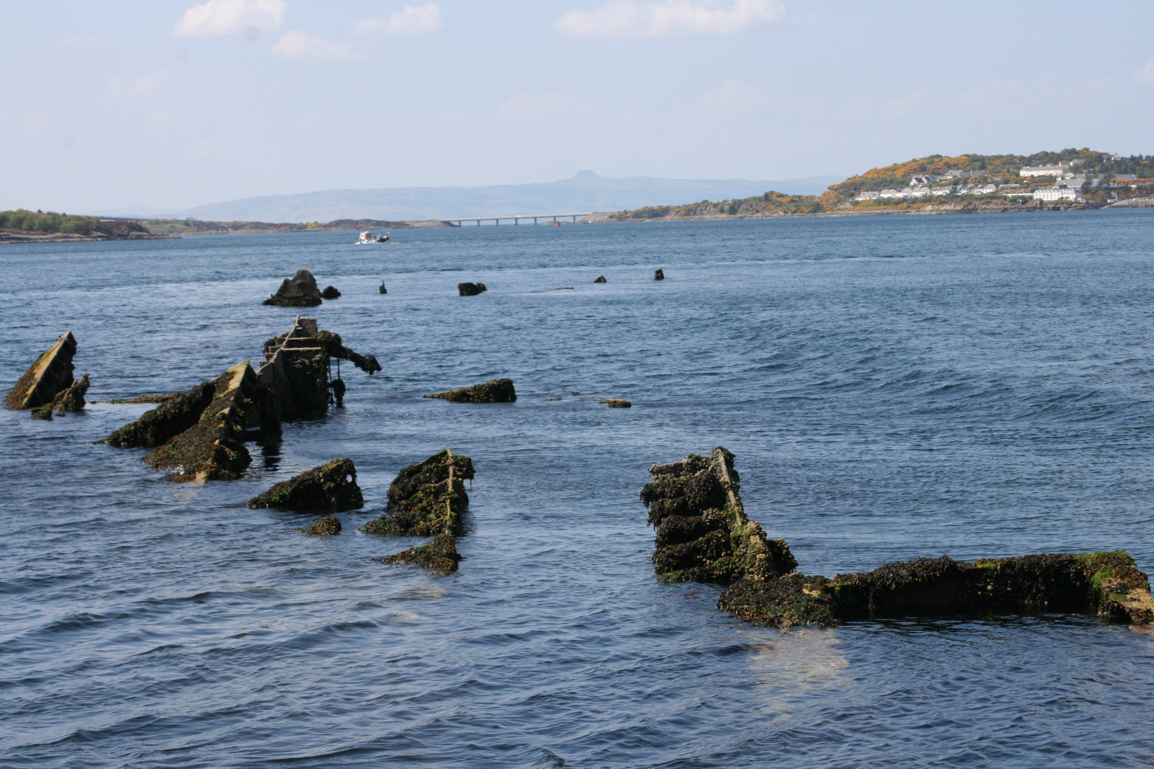 The wreck of the HMS Port Napier.